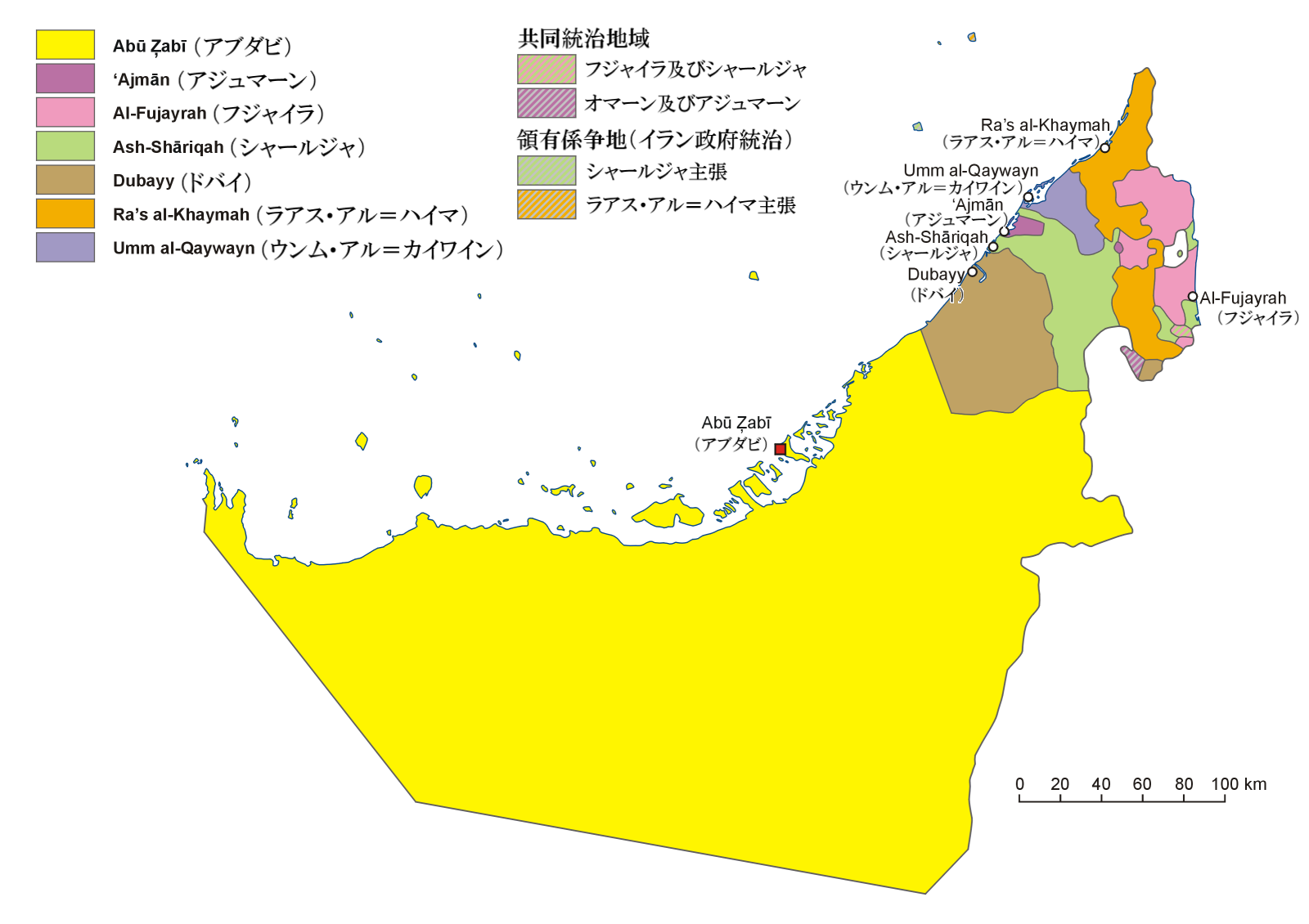 Administrative map of the United Arab Emirates in Japanese